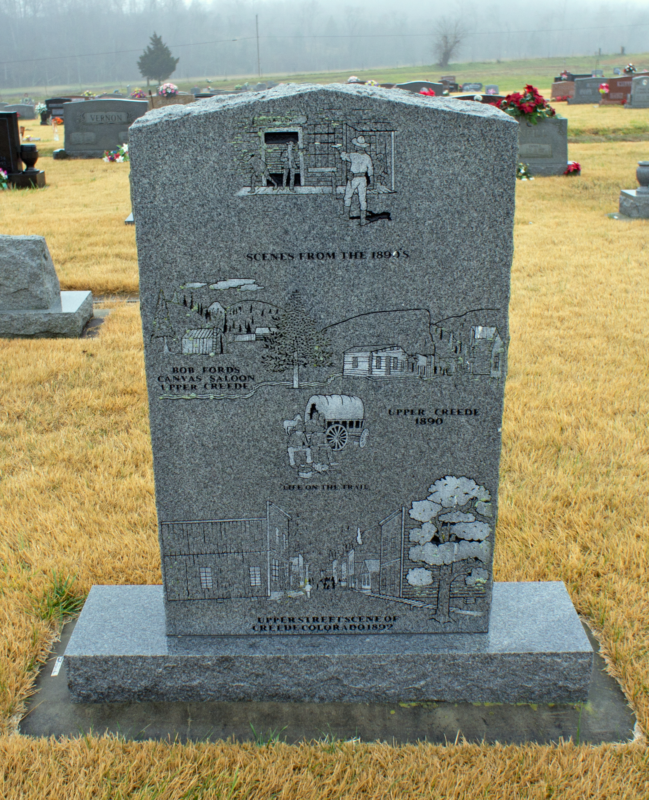 Edward O'kelly memorial - back view depecting scenes from 1800's Creede colorado.